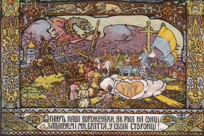 The Ukrainian propaganda leaflets, 1917